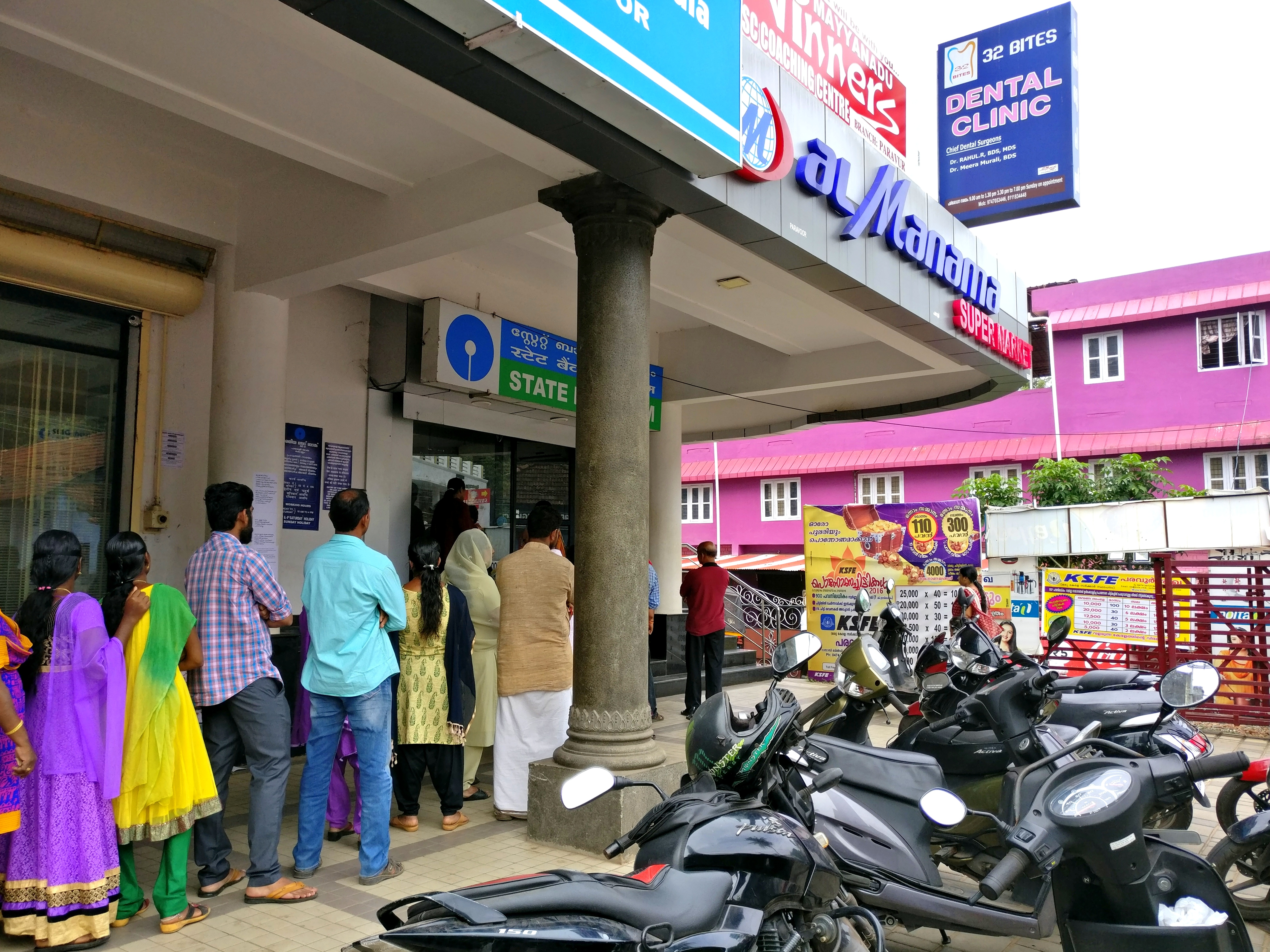 People standing in queue in front of SBI Bank ATM at Paravur near Kollam city in Kerala to withdraw cash following Govt's currency demonetization decision in November 2016.